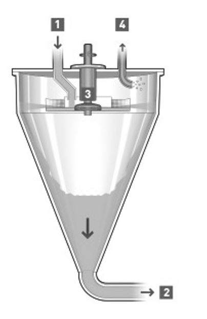 Principle